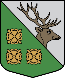 Coat of arms of Drustu pagasts, Latvia